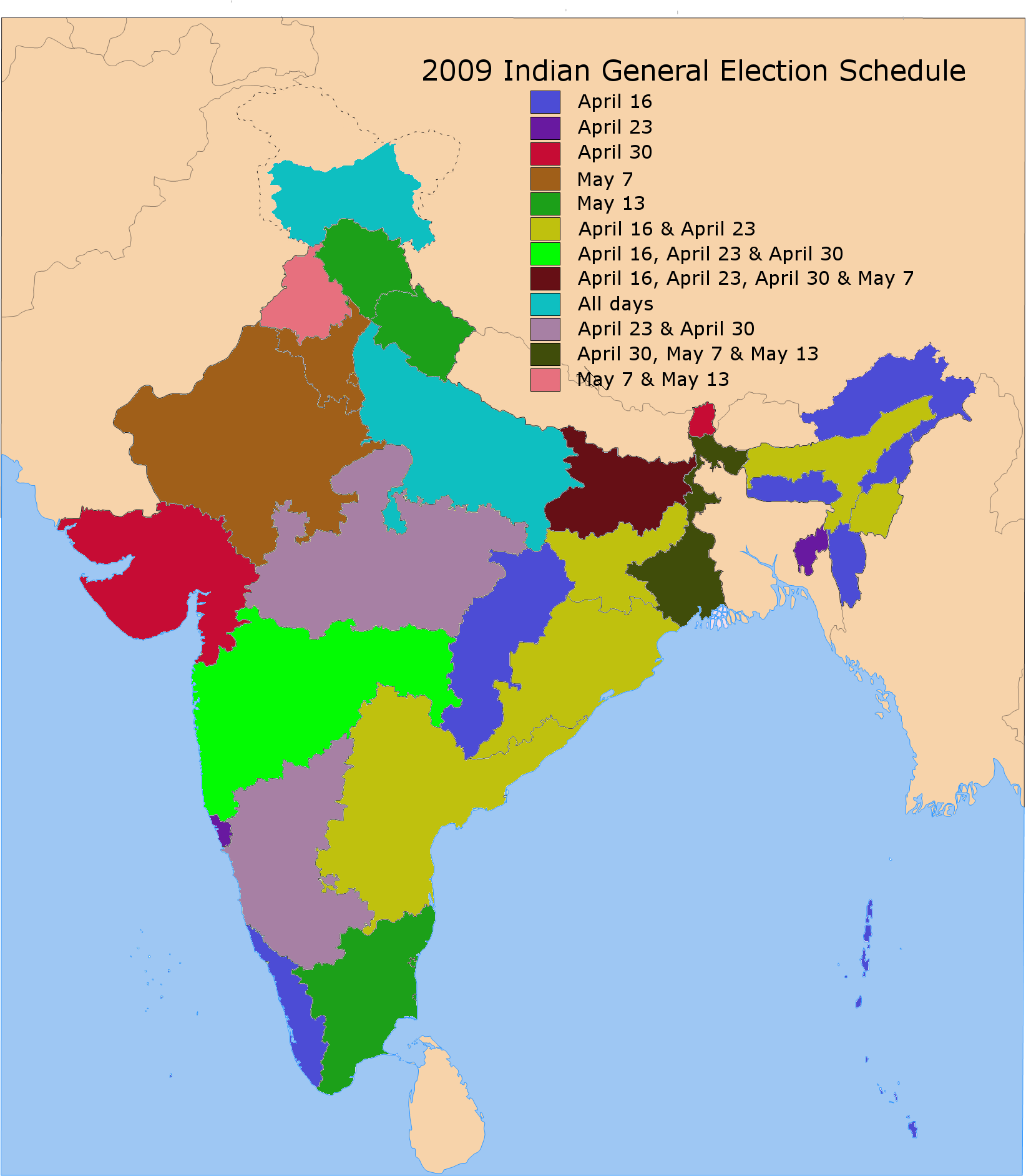 Schedule of 2009 Indian Parliamentary Elections